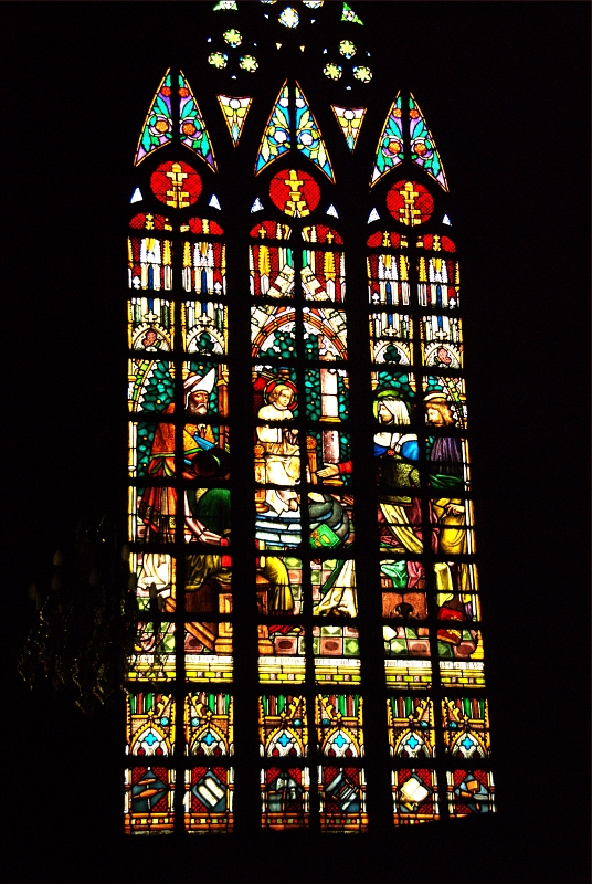 Stained glass window from Germany in San Sebastian Church